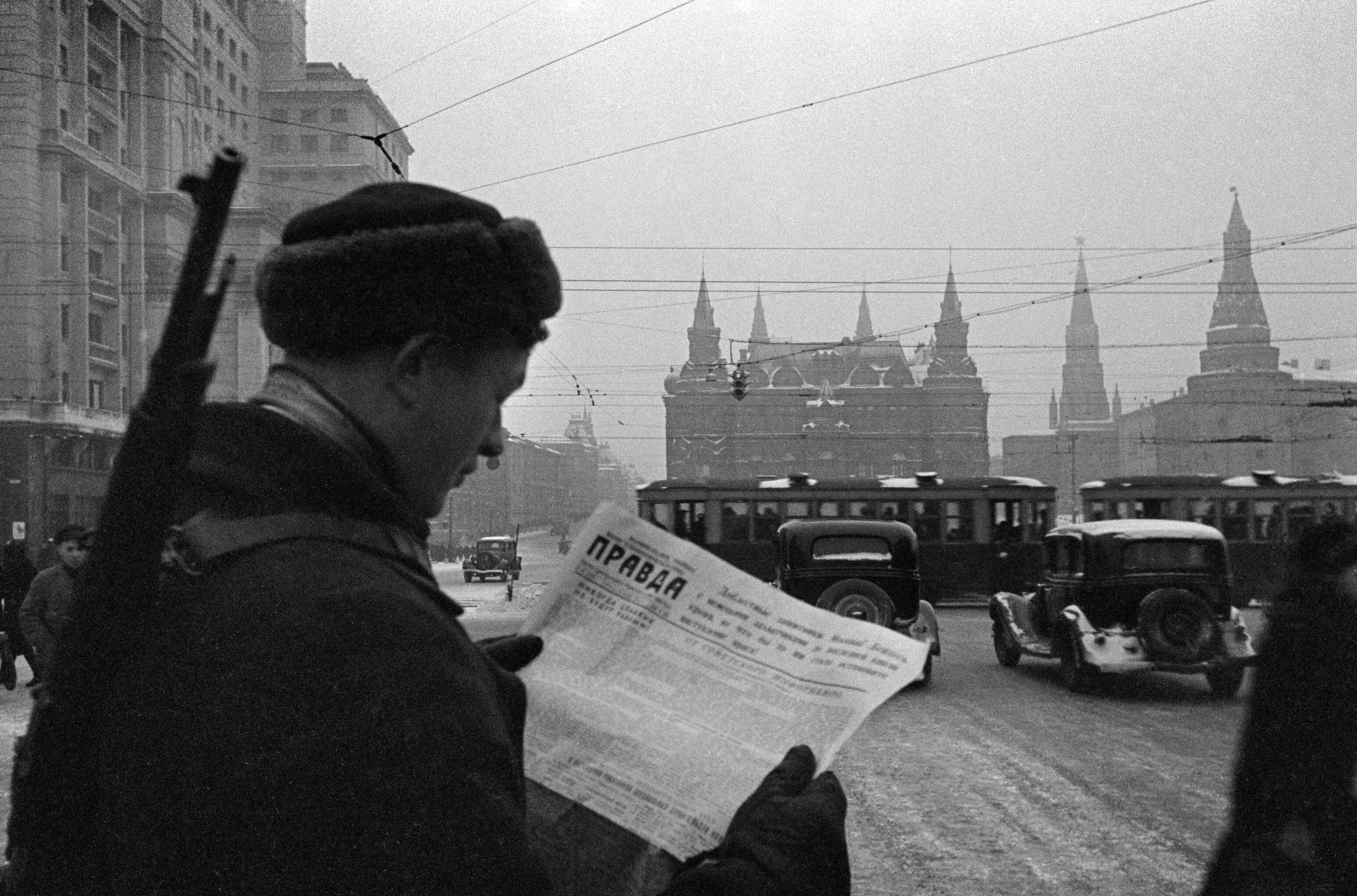 “Wartime city life: Moscow in October - December 1941”. Wartime city life: Moscow in October - December 1941.